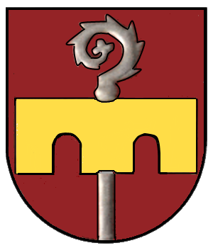 Old coat of arms of Marxheim in Marxheim